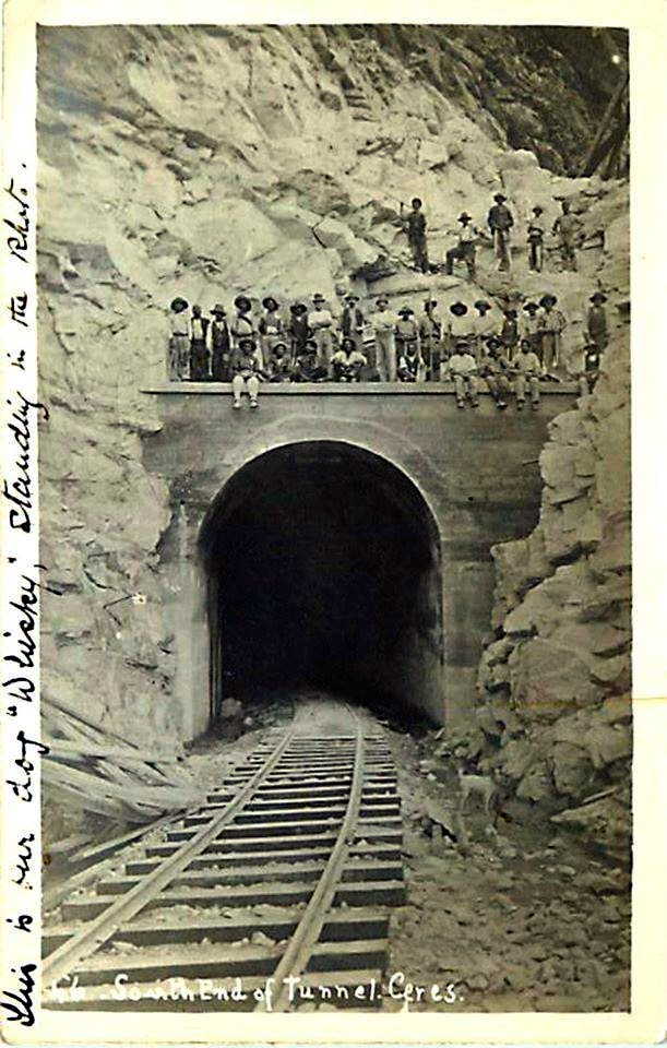 Tunnelers and a tunnel dog named Whiskey at the south portal of the Ceres Tunnel